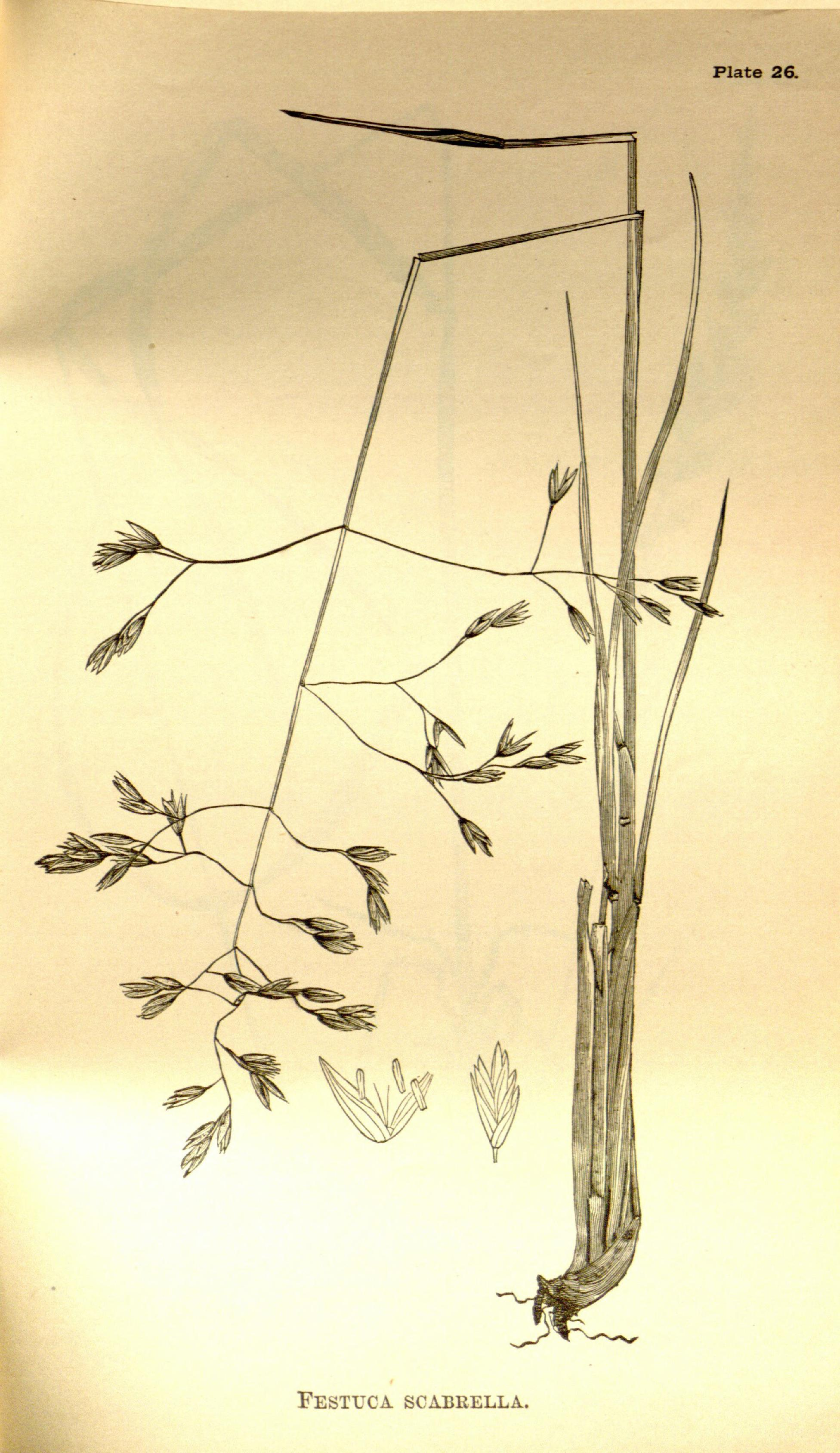 Report of an investigation of the grasses of the arid districts of Texas, New Mexico, Arizona, Nevada, and Utah, in 1887.